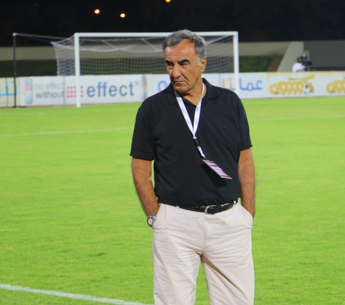 Senad Kreso during a match of Salalah Club in 2015-16 Oman professional League. The match was played against Al Nahda Club. 10 December 2015 Auqad Sports Complex, Auqad, Salalah, Oman Picture By : Pratyush Mishra Photographer email id